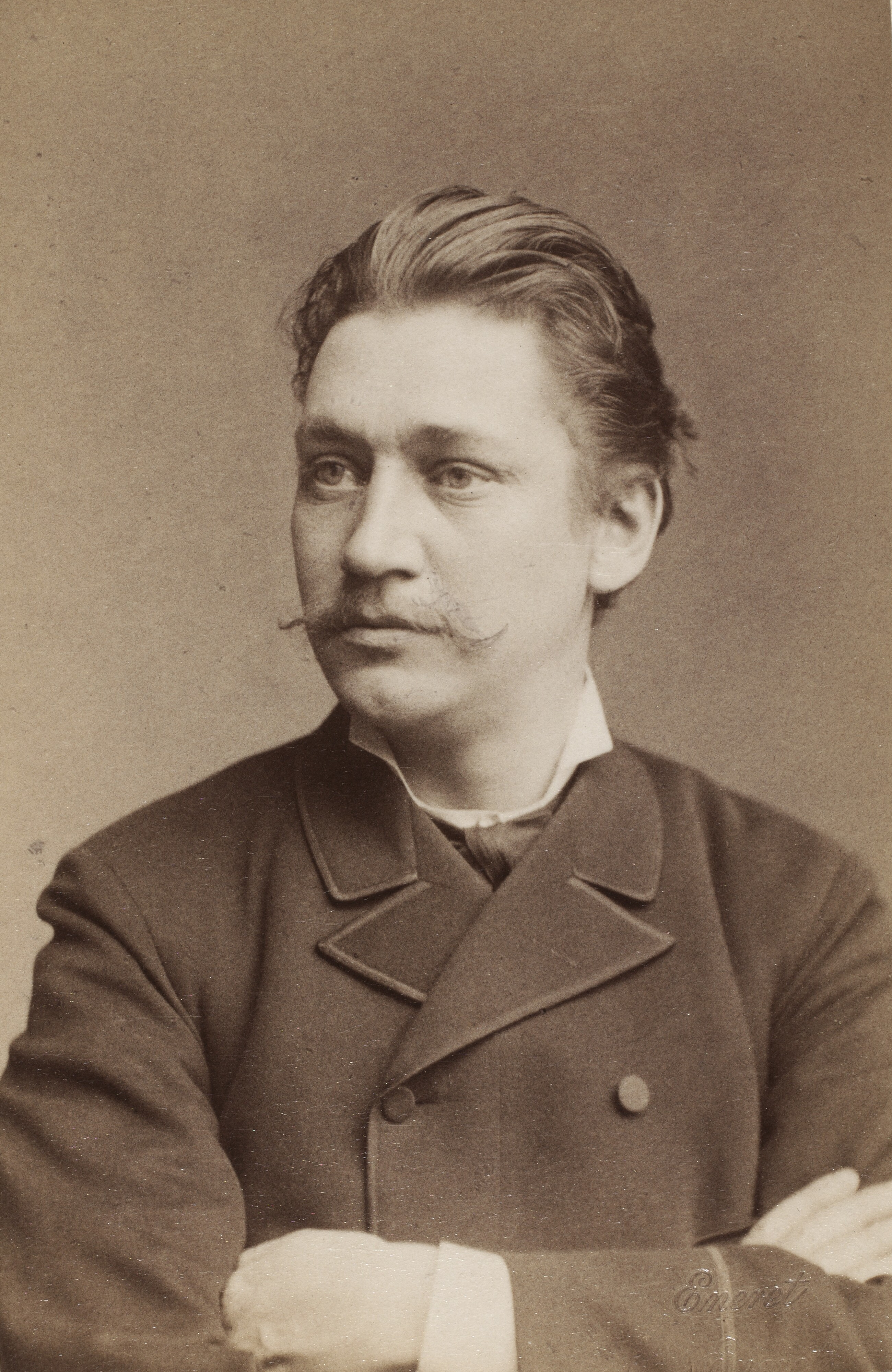 Danish and German pianist and composer Ludvig Schytte (1848-1909)